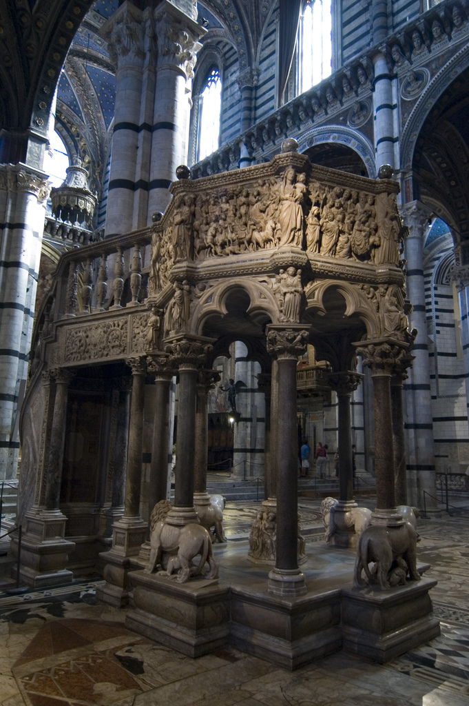 see above